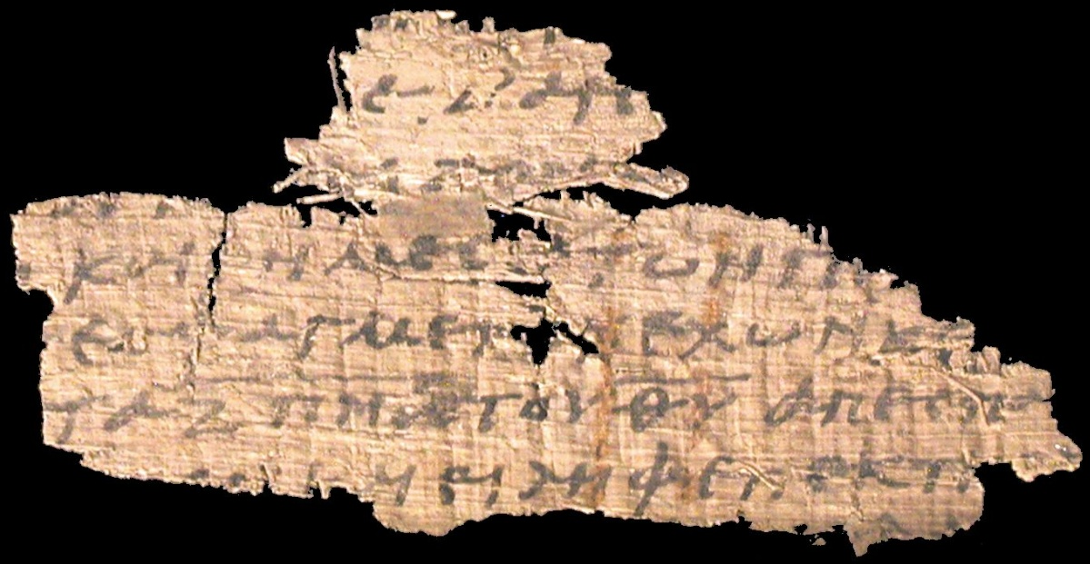 Papyrus 24 - Papyrus Oxyrhynchus 1230 - Andover Newton Theological School OP 1230 - Book of Revelation 5:5-8